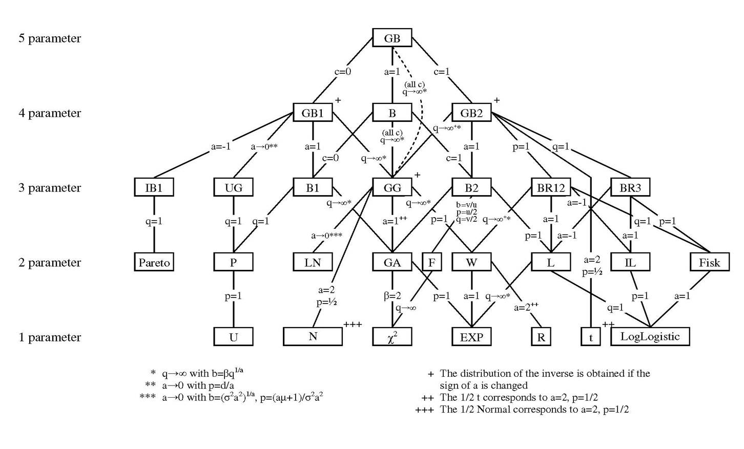 Visual representation of the relationships between parametric distributions within the generalized beta (GB) family.